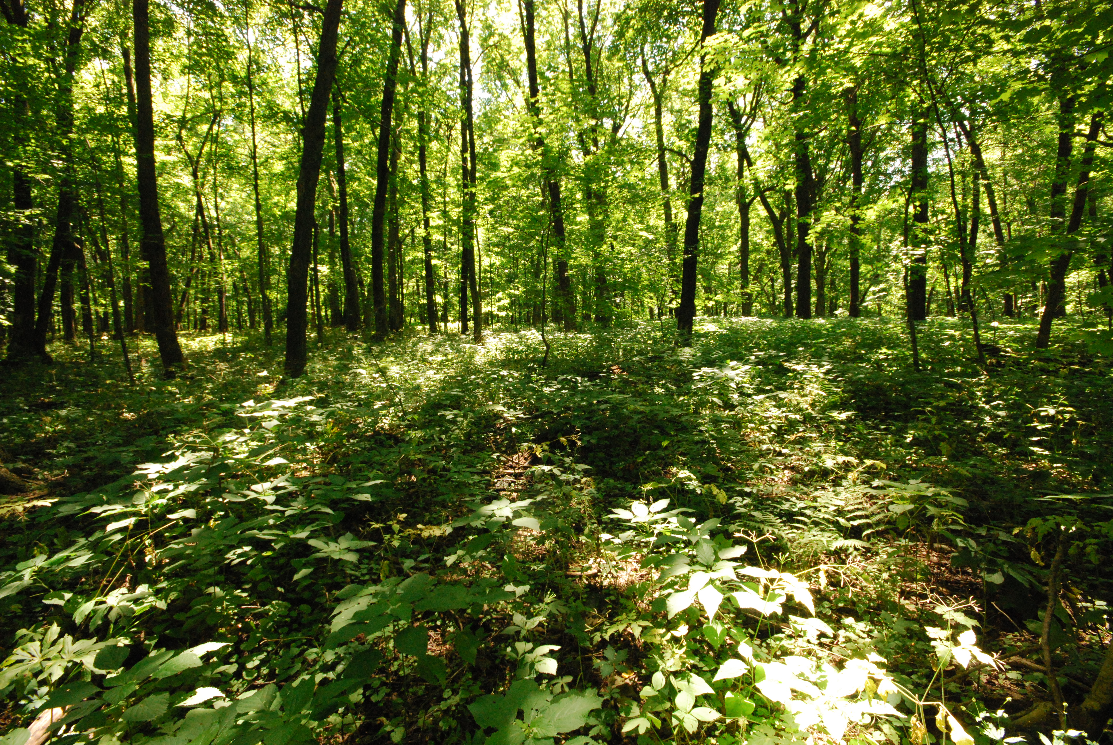 Belmont Mound Woods Wisconsin State Natural Area #167 Belmont Mound State Park Lafayette County